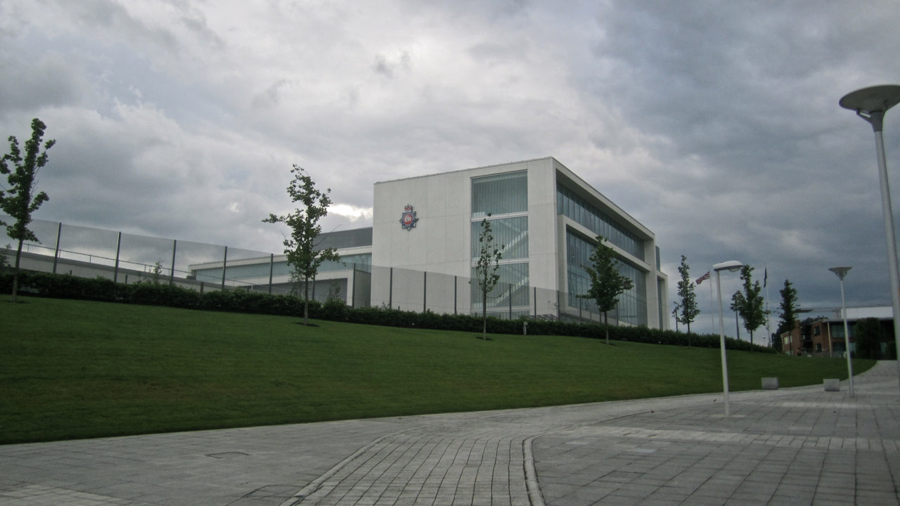 Greater Manchester Police - North Manchester division